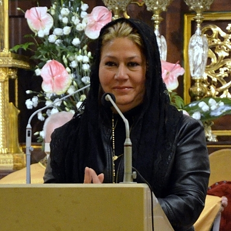 Floribeth Mora Diaz - Danksagung für heilige Päpste